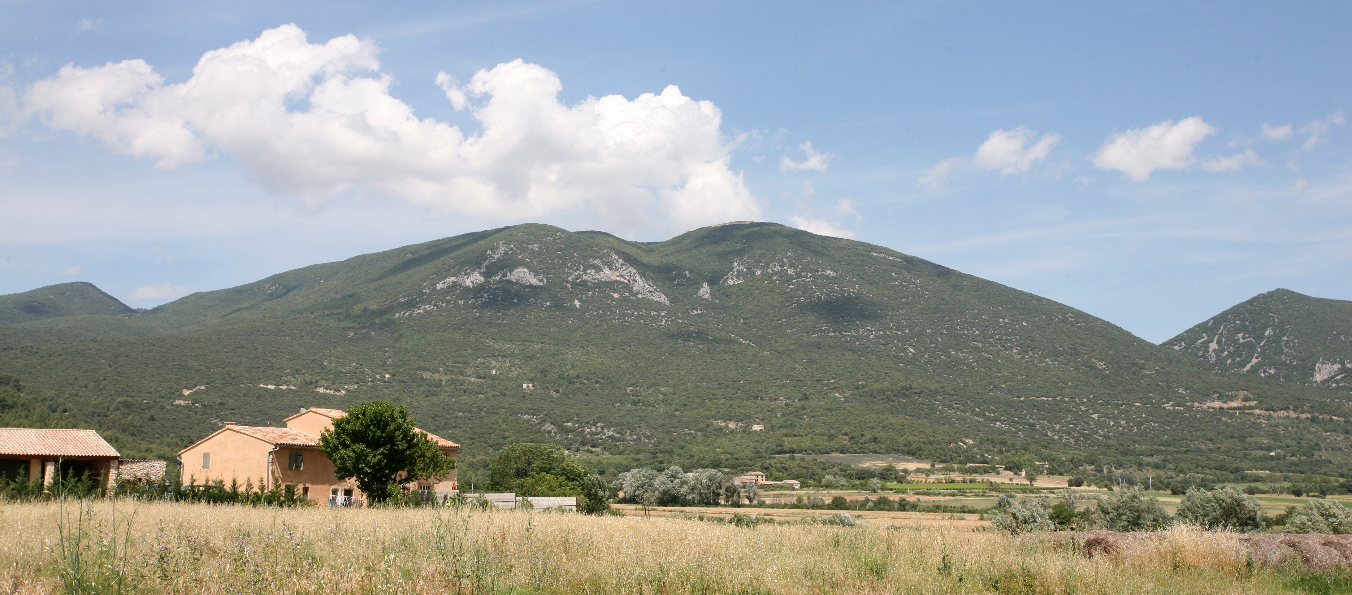 South side of the signal de Saint-Pierre (1 256 m), the highest hills of the "Monts de Vaucluse", France.